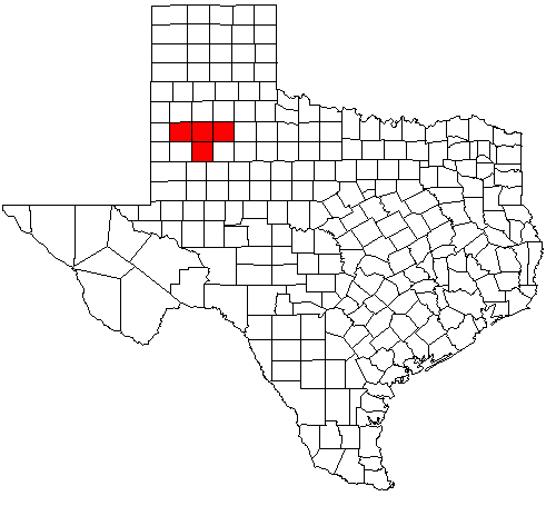 Map highlighting the Lubbock-Levelland Combined Statistical Area in West Texas. Credits Created with the GIMP. Made by User:Acntx.